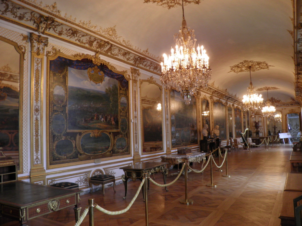 The Prince's Battle Gallery, grands appartements, château de Chantilly.